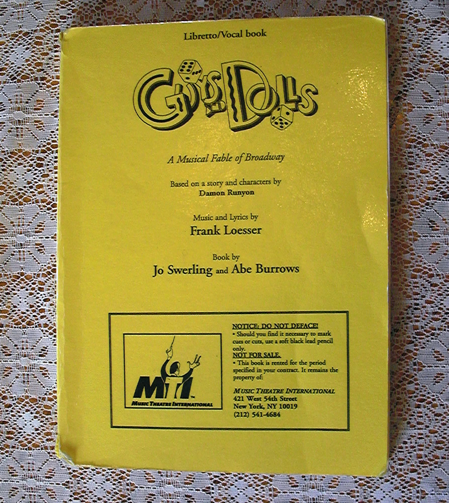 Guys and Dolls, Libretto and Vocal book, printed by Music Theatre International, 1978. This book was rented out to actors and actresses in the play.